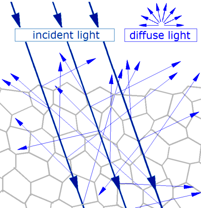 Mechanism of diffuse reflection by a solid surface